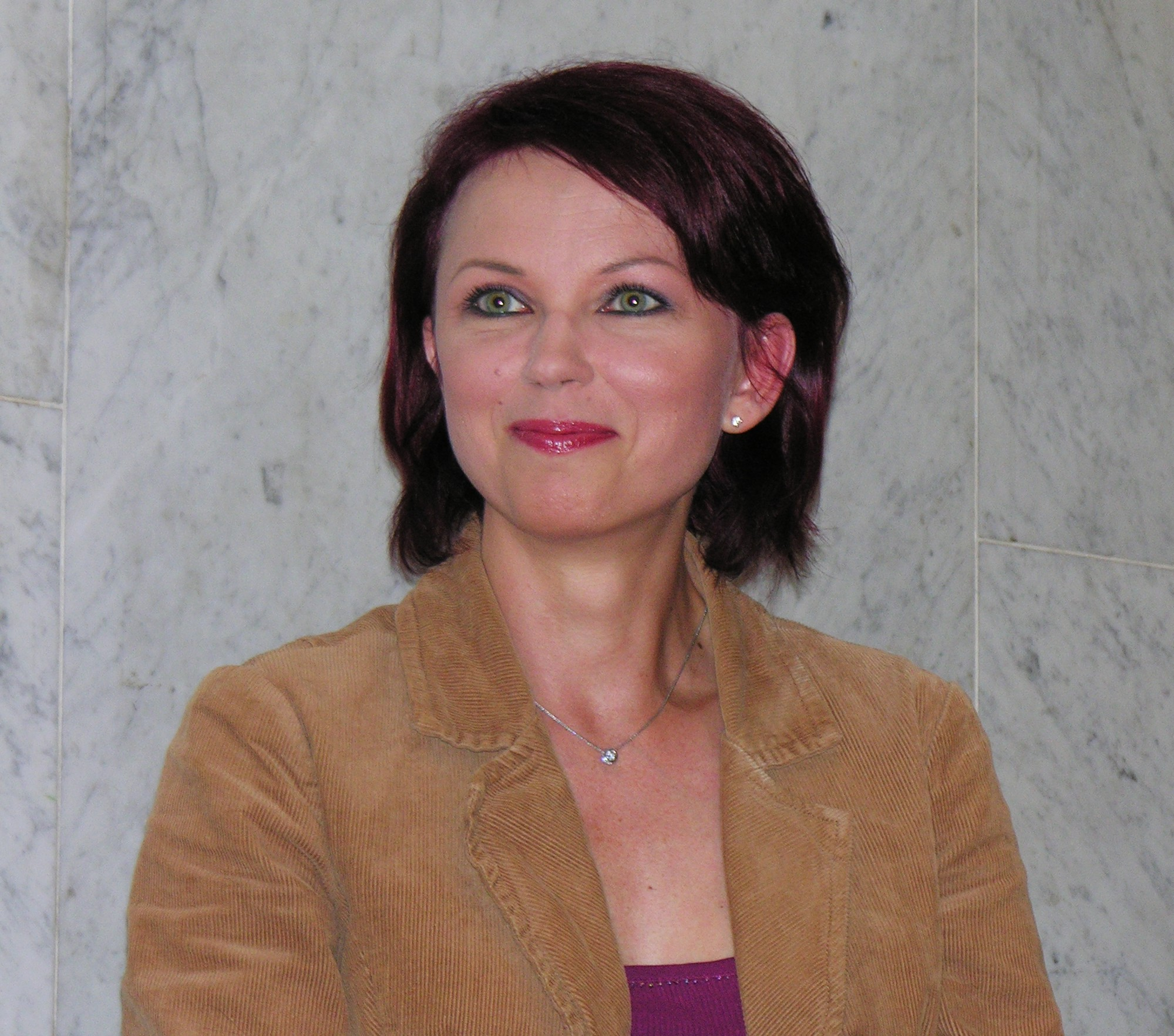 Kata Kärkkäinen, Finnish writer, the Night of the Arts in Helsinki, 2008.